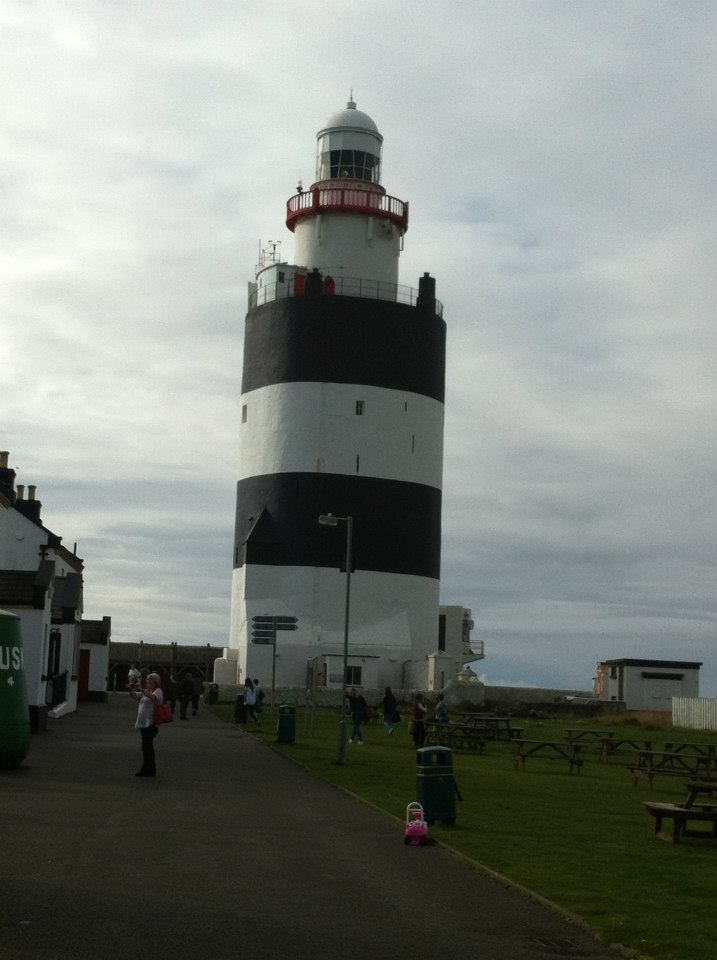 Hook Lighthouse